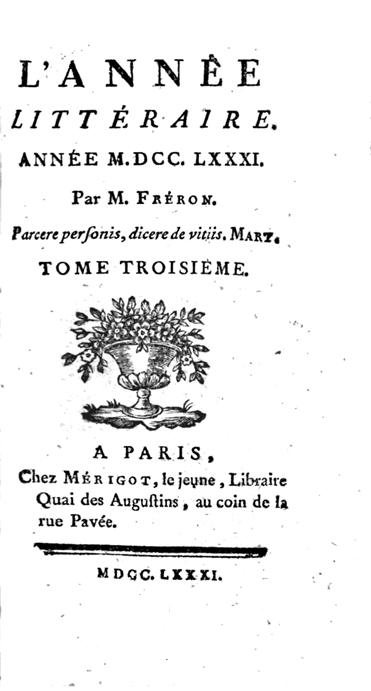 French literary magazine L'Année littéraire 1781 edition